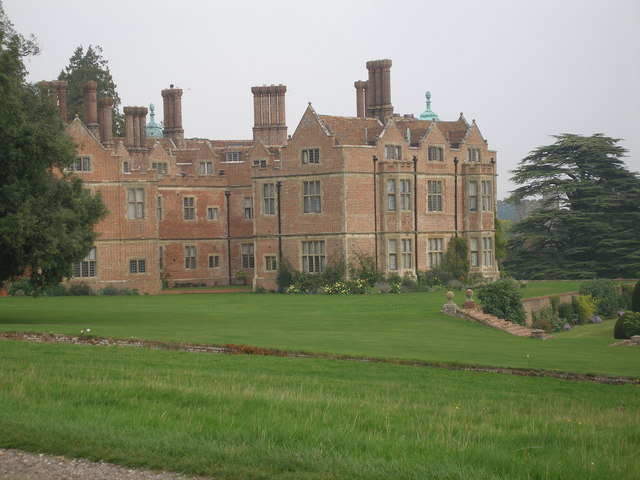 Chilham Castle A red-brick Jacobean manor house dating from 1616AD. One of several flights of brick steps linking the various garden terraces can be seen to the right.